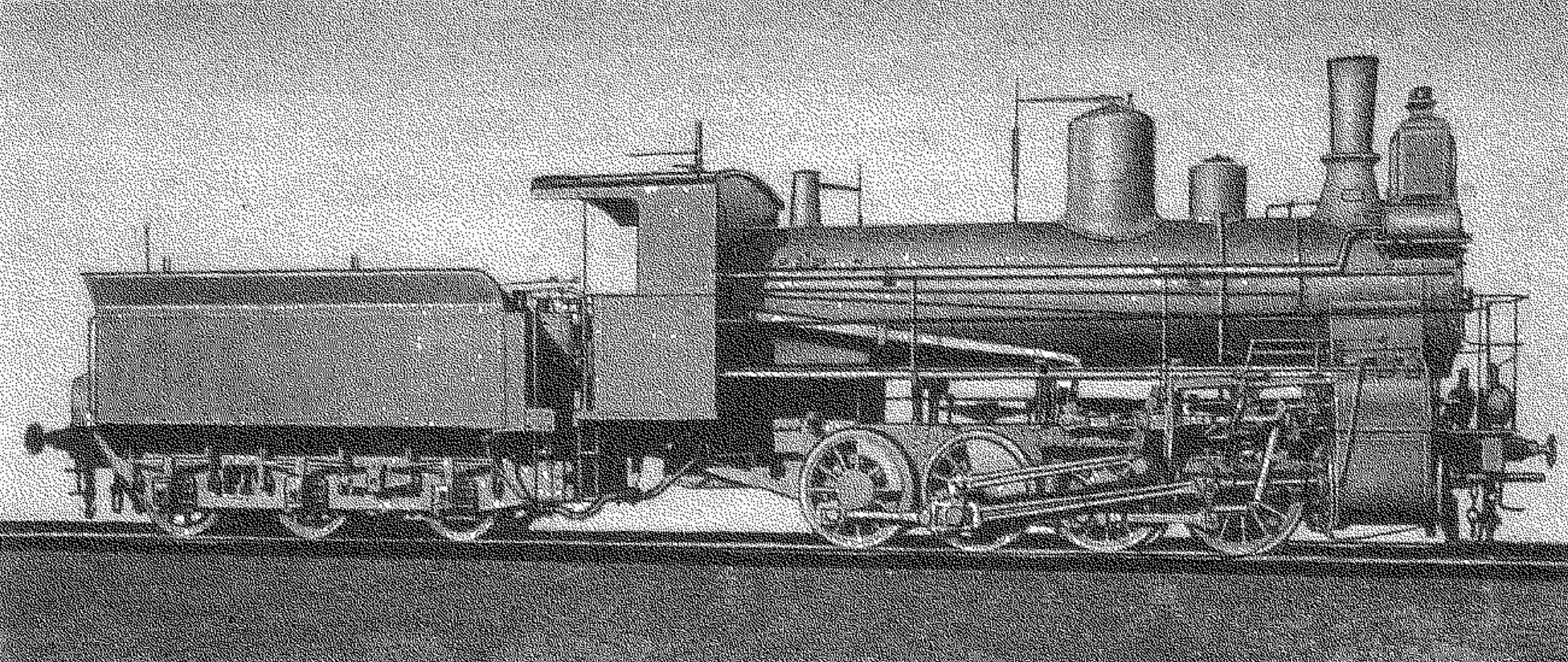 Locomotive of Kolomna Type 66 (two made)